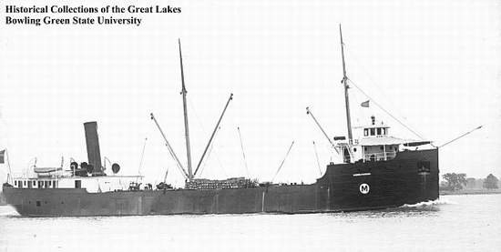 The tanker Piave under her former name Hamiltonian (Before 1918).